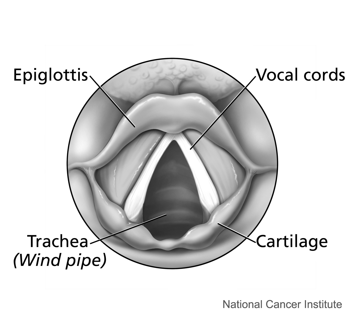 Title Larynx (Top View) Description A top view of the larynx (seen with a mirror). The epiglottis, vocal cords, trachea, and cartilage are labeled. Image is included in this publication: Topics/Categories Anatomy -- Digestive/Gastrointestinal System Type B&W, Medical Illustration Source National Cancer Institute